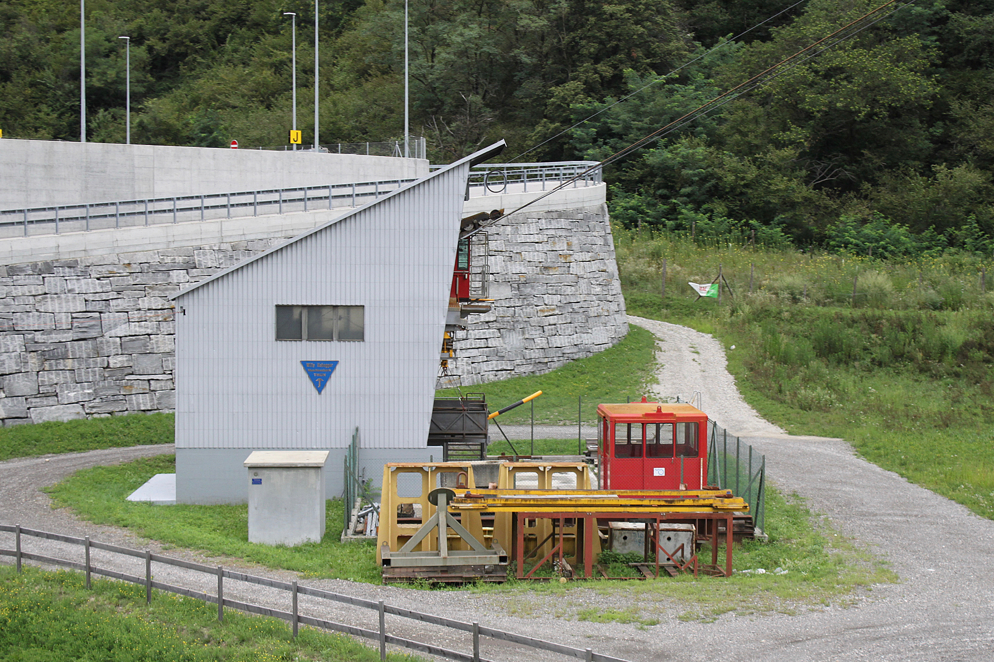 Biasca - Val Scura aerial tramway (built by Habegger).